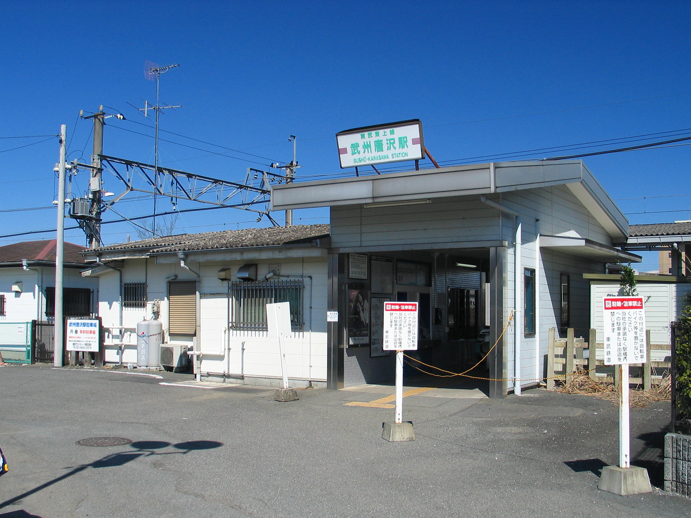 Bushu-Karasawa Station on the Tobu Ogose Line in Saitama, Japan